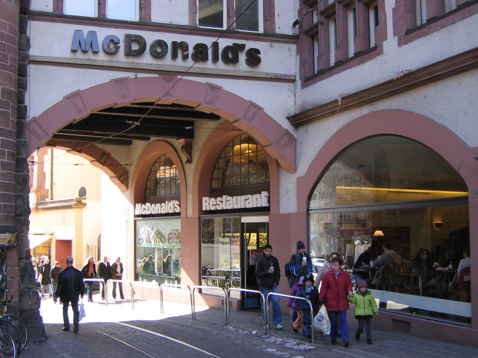 McDonald's at the Martinstor in Freiburg, Germany